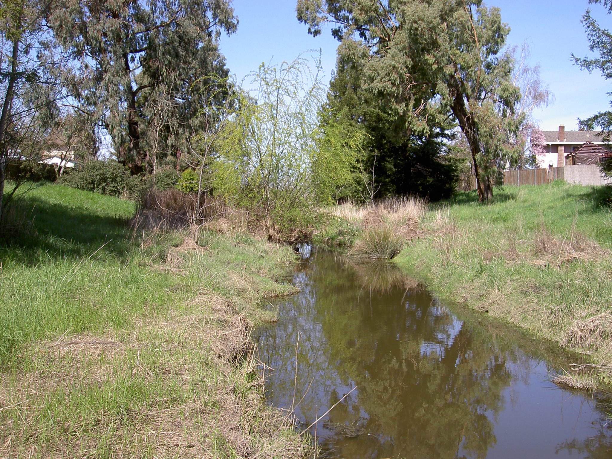 Five Creek in Rohnert Park; looking north